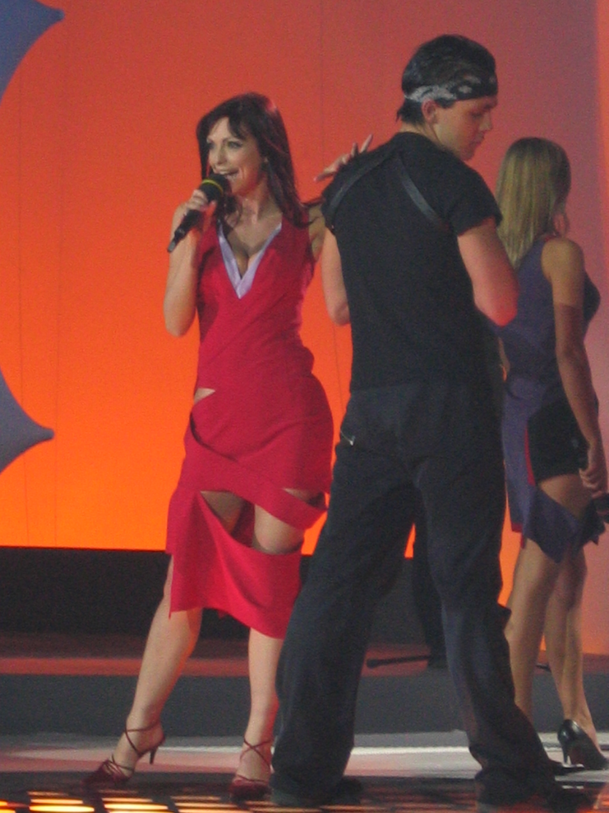 Natalija Verboten, Slovene singer of pop music.